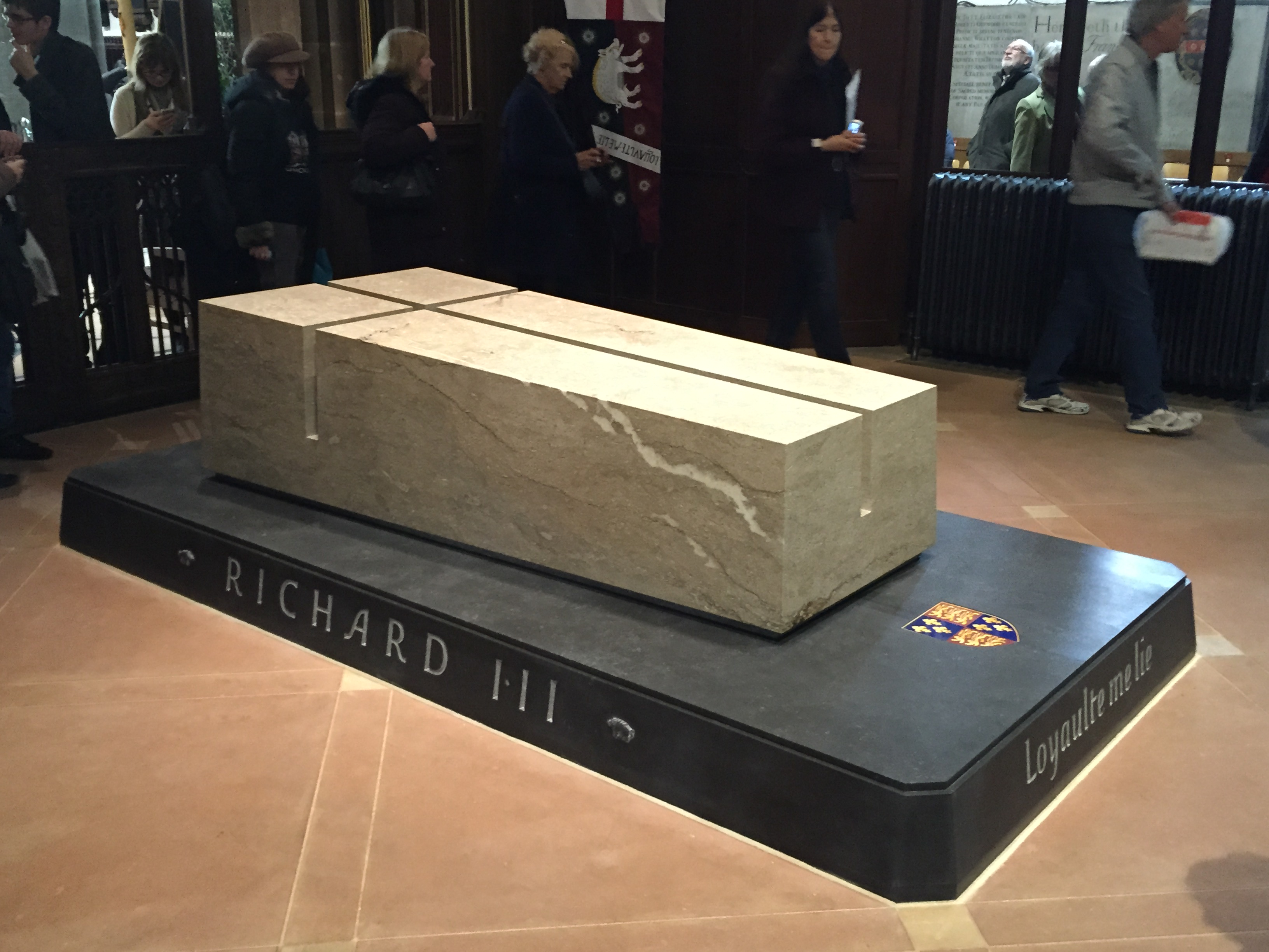 Richard III's new tomb in Leicester Cathedral. I personally took this picture when Richard III's new tomb was revealed to the public in Leicester Cathedral on 27 March 2015, pictures were allowed with no restrictions of use